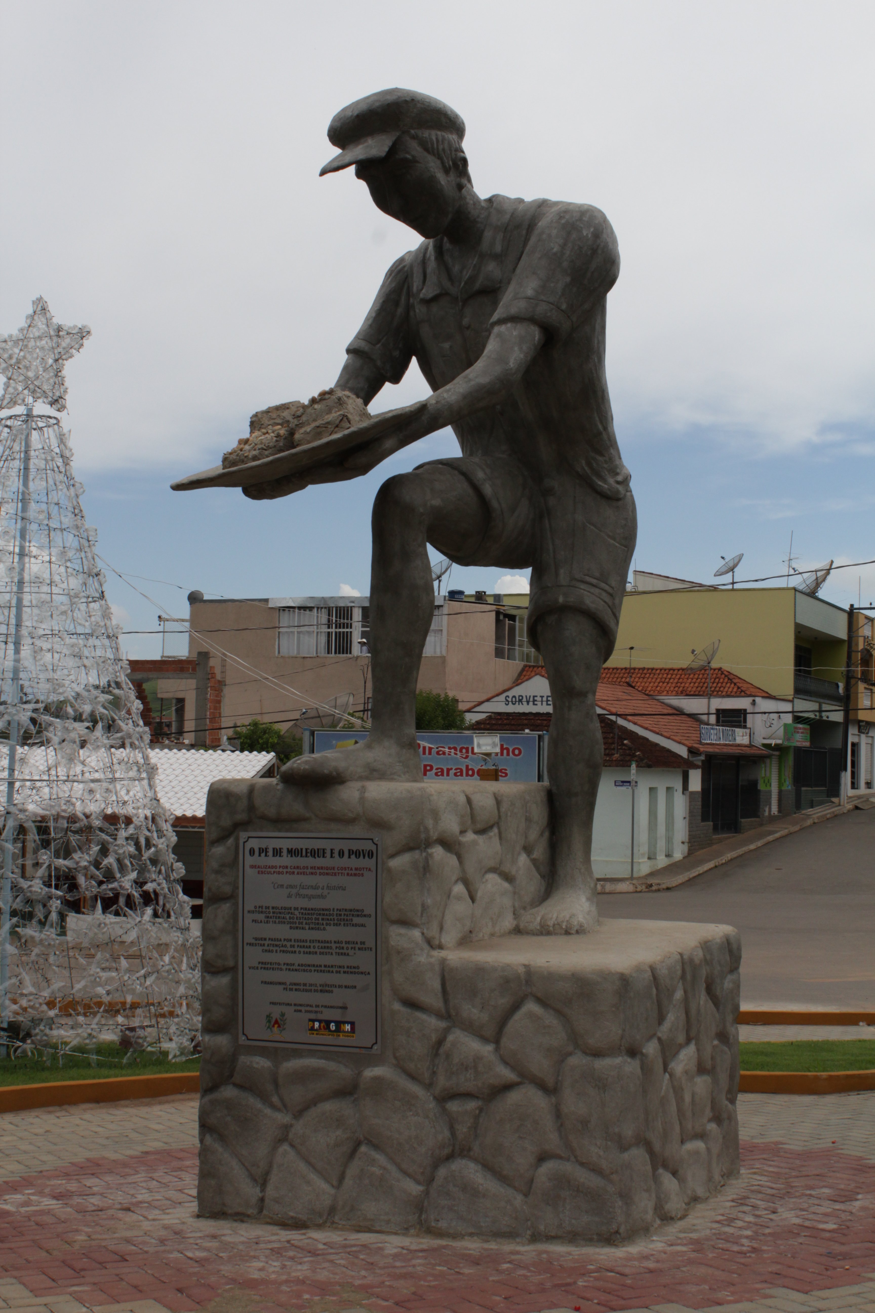 Statue in the city of Piranguinho-MG, Brazil, representing the "pé de moleque" candy, The statue was inaugurated in June 2012.